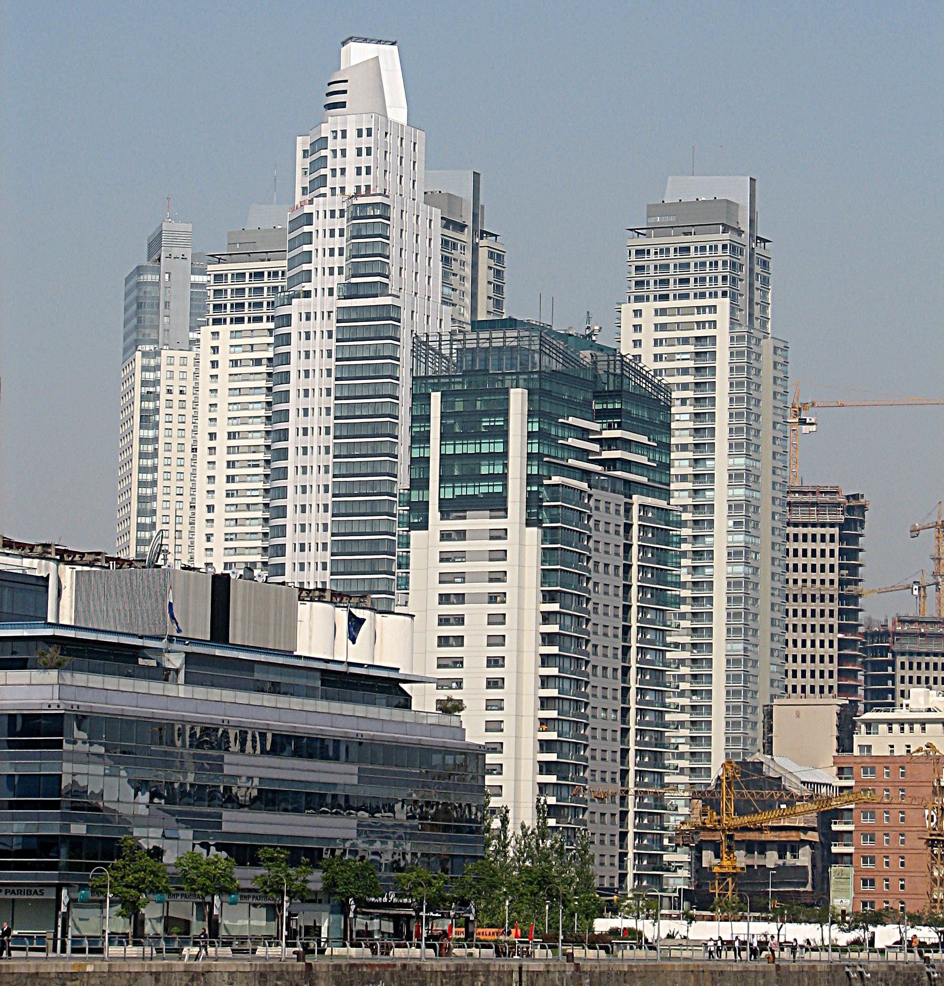 Partial view of eastern Puerto Madero, Buenos Aires.